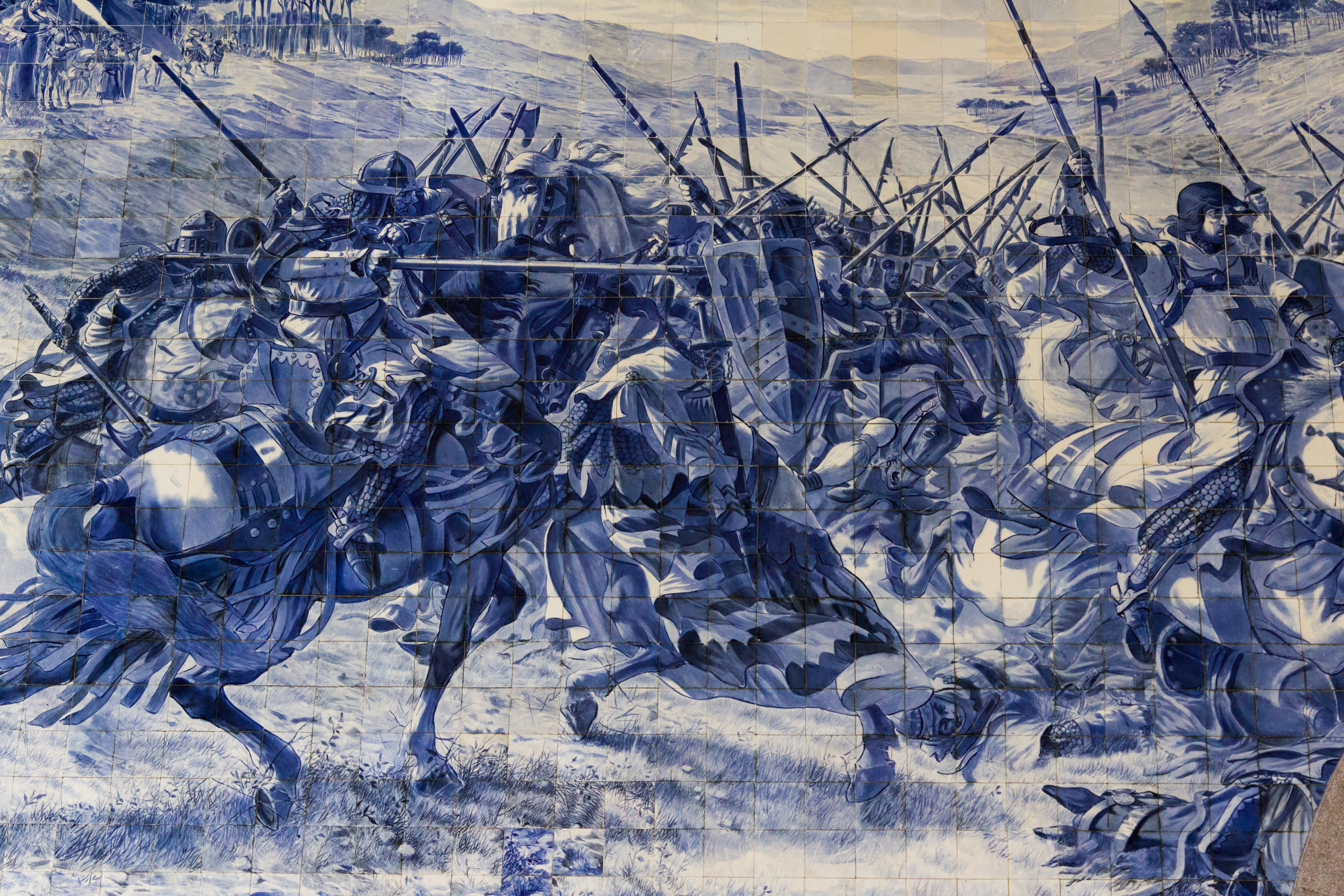 Azulejos in the train station